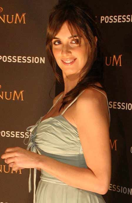 Spanish actress Paz Vega.